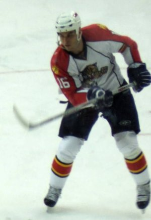 Nathan Horton, ice hockey player of the Florida Panthers